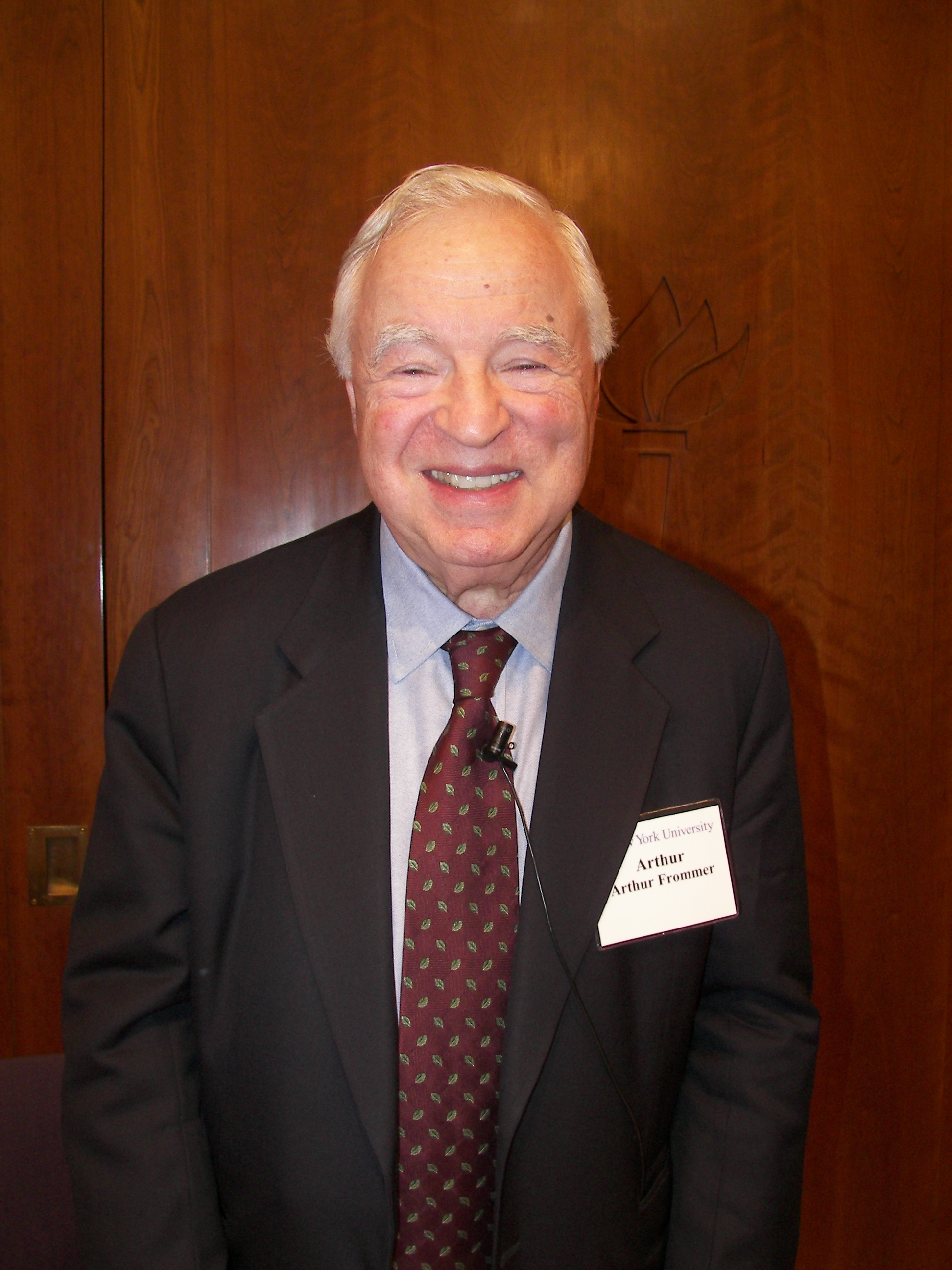 Arthur Frommer after speaking at New York University. Photo taken by franchin on December 4, 2007.